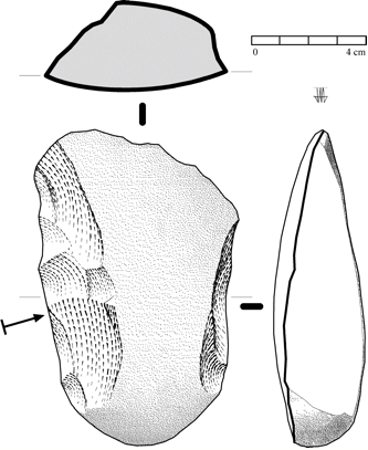 Tipycal Acheulean Cleaver flake, type 0 according to Tixier clasificatio, and proceed from a superficial site in the Valladolid province (Spain), in the Douro valley.